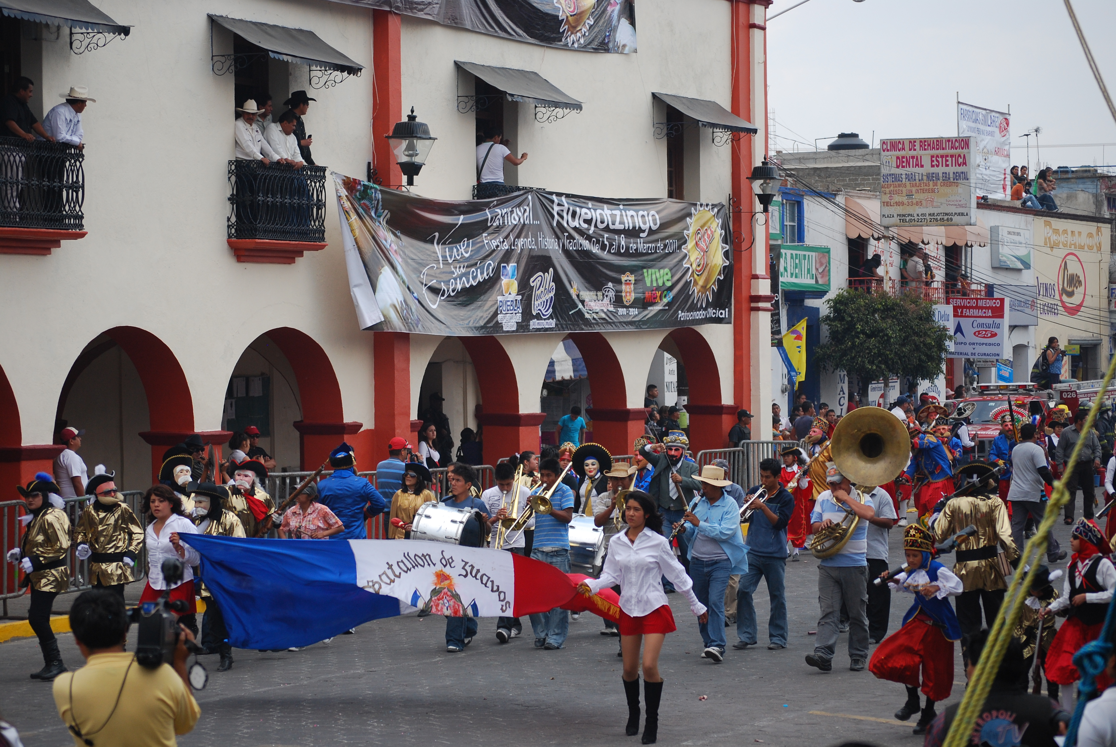 Entrance of a group of zuavos at the Carnival of Huejotzingo, Puebla, Mexico